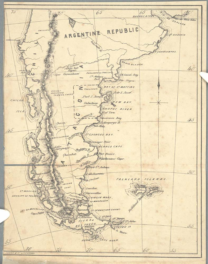 Hugh Hughes (Cadfan Gwynedd, 1824-88) prepared 'Llawlyfr y Wladychfa Gymreig' as a handbook for the movement to establish a Welsh Settlement.